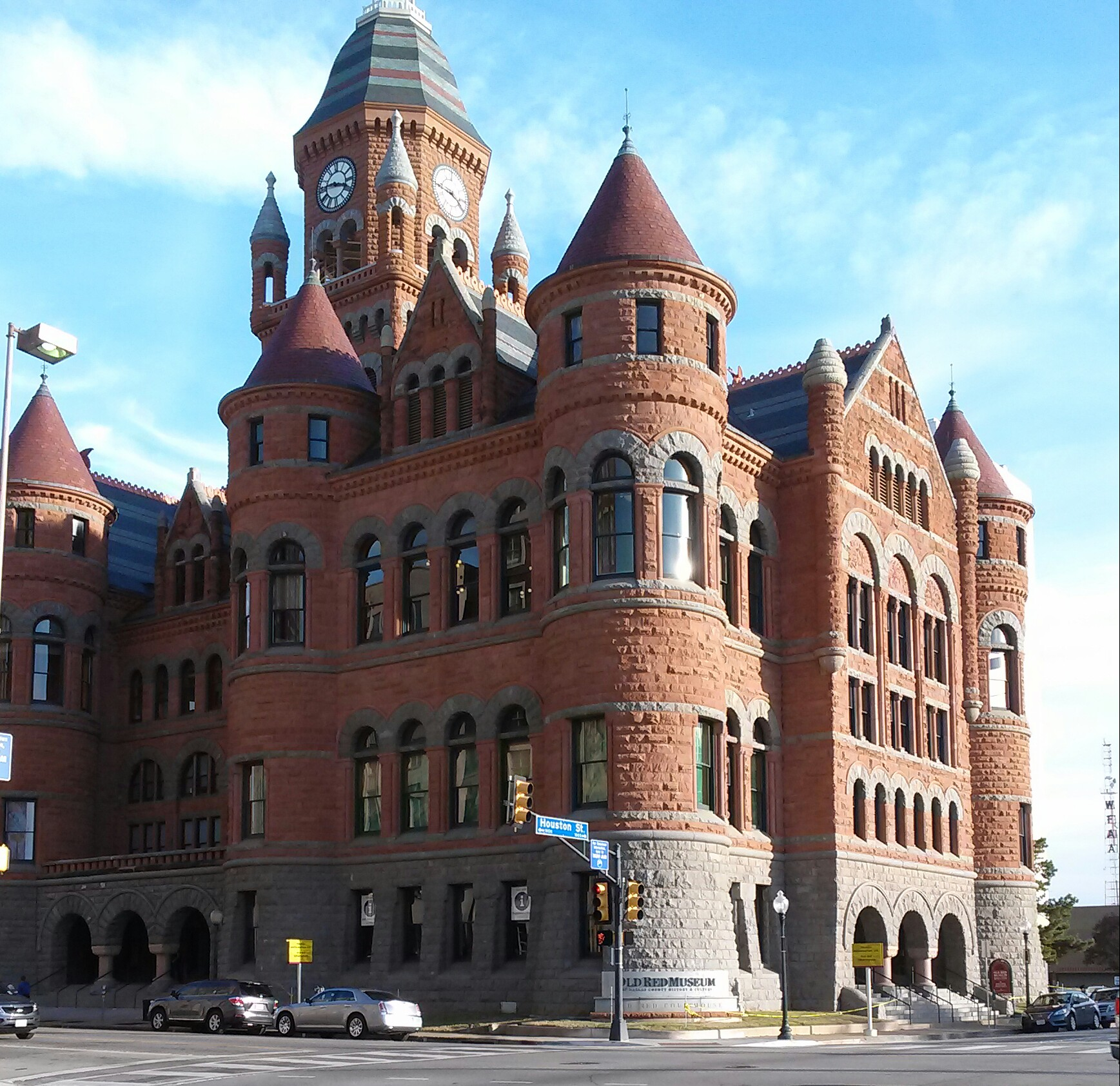 Old Red Museum of Dallas County History and Culture